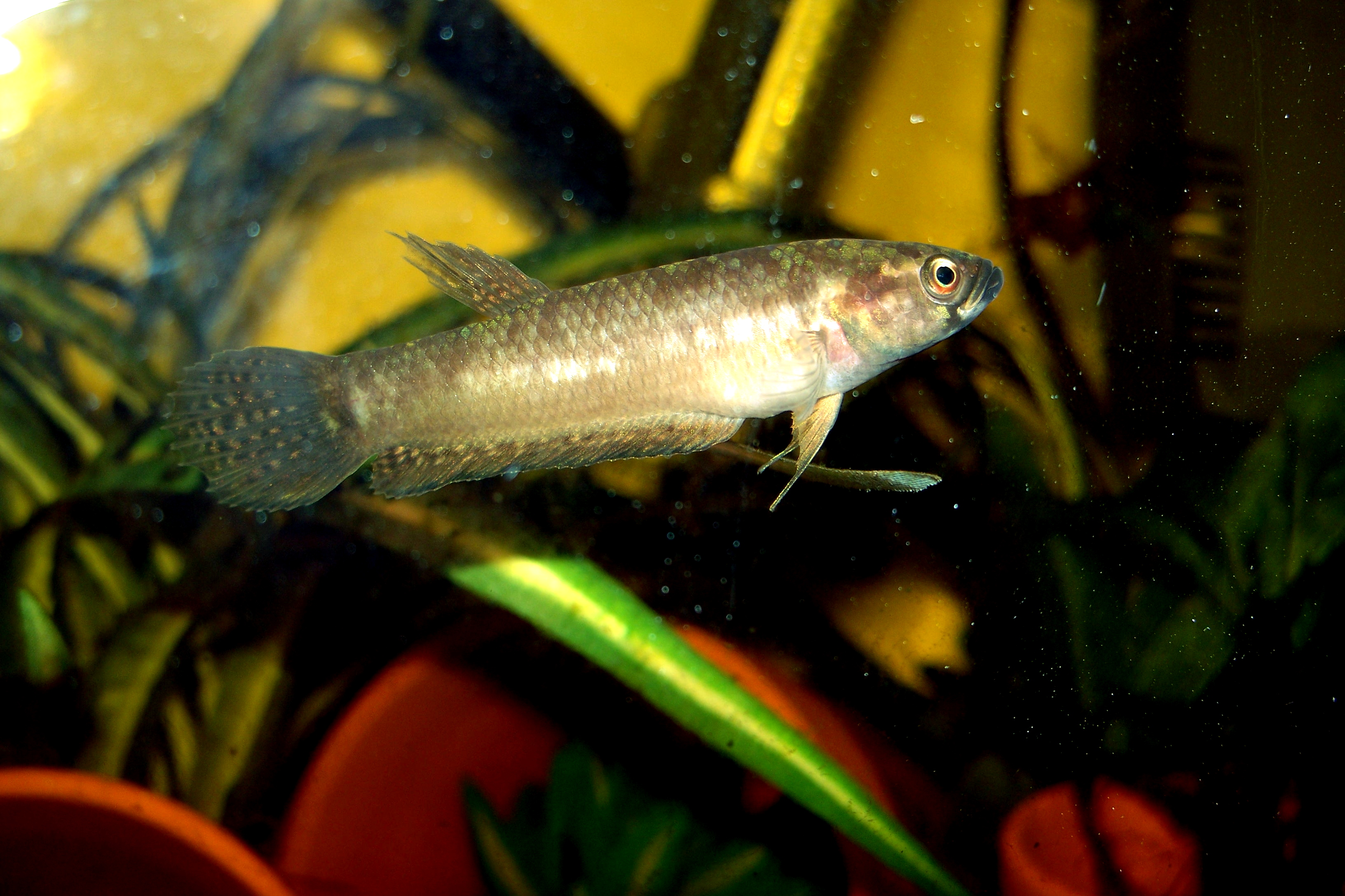 A photo of a sexed female Betta pallifina